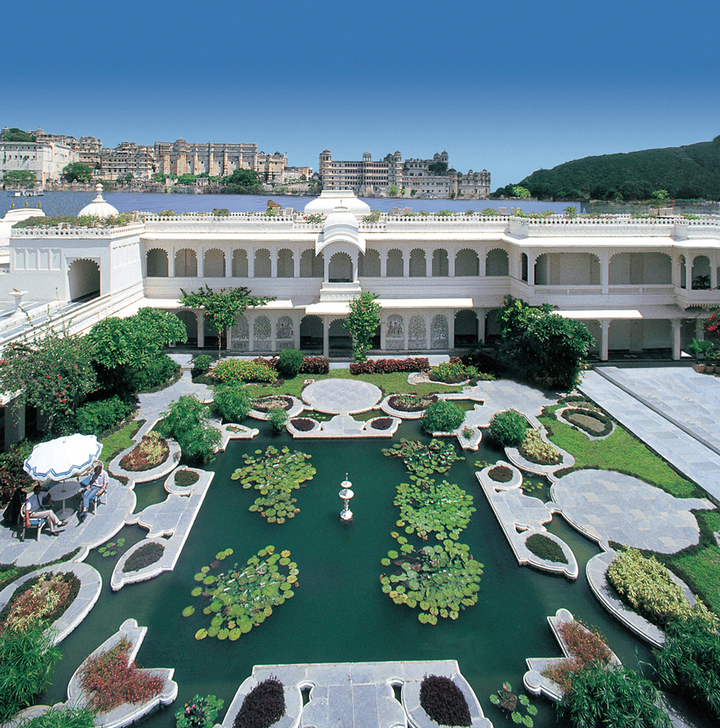 Exterior view (Lily Pond) of Taj Lake Palace, Udaipur